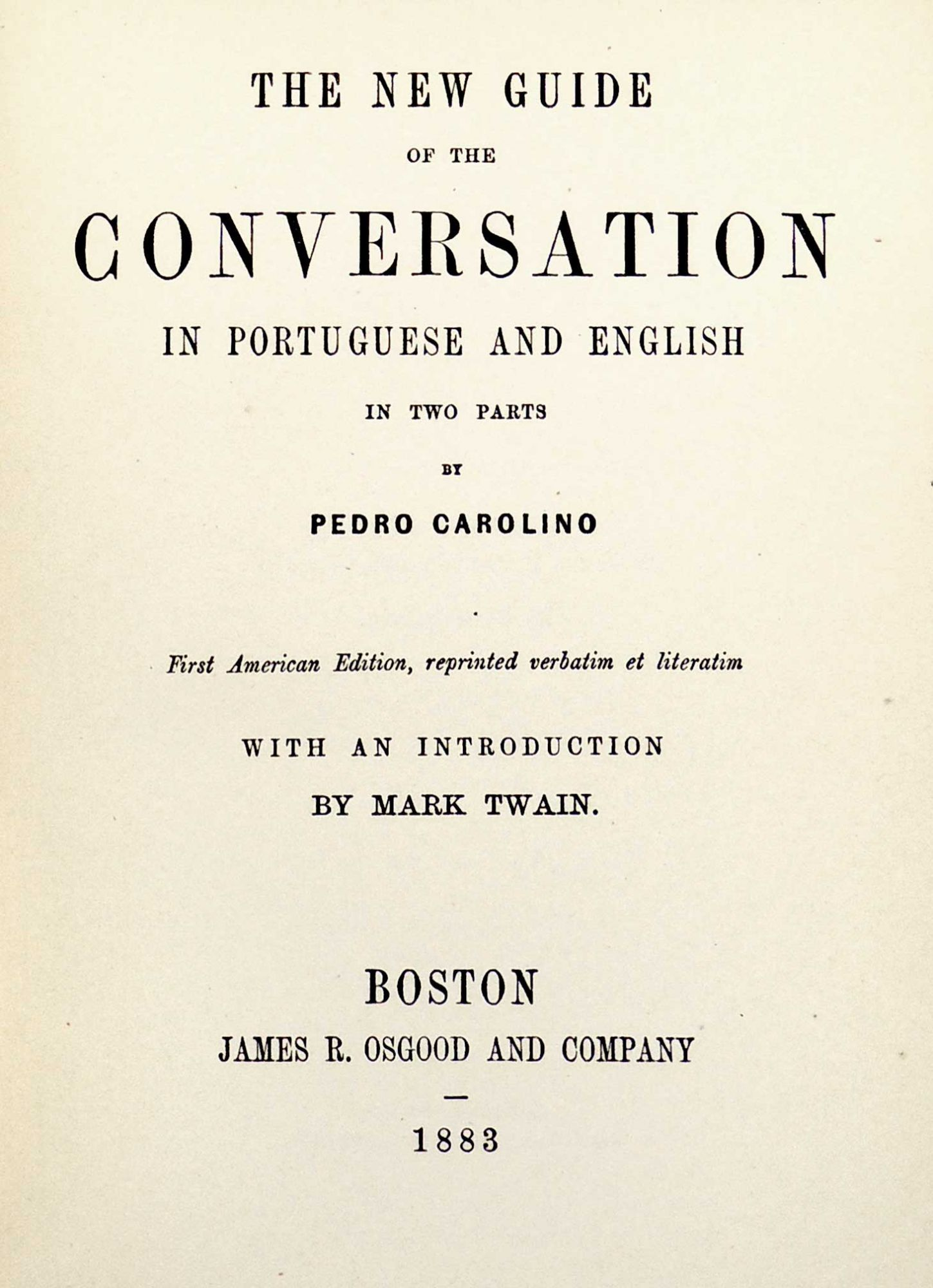 Title Page